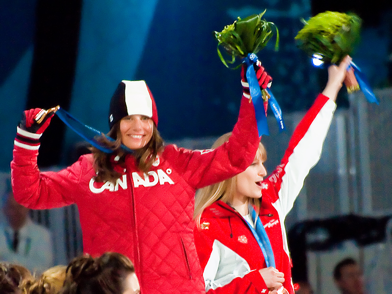 Maëlle Ricker celeberates the first gold medal won by a Canadian woman in Winter Olympics on home soil